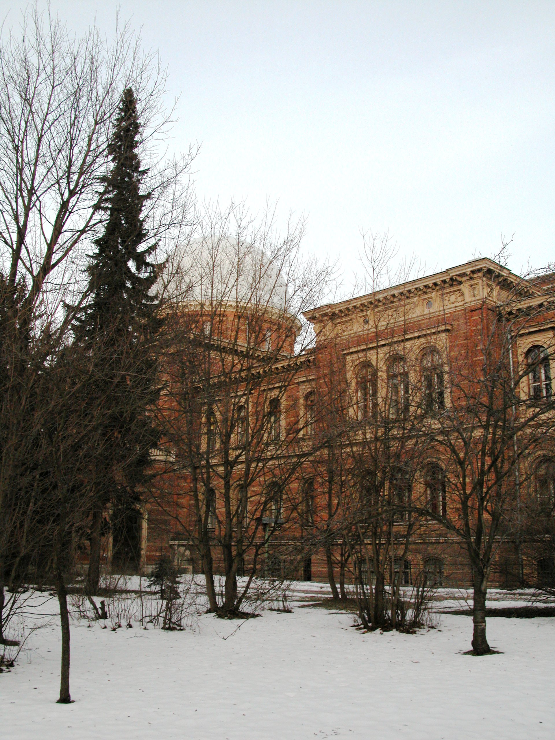 Universitätssternwarte Wien/Observatory of the University of Vienna